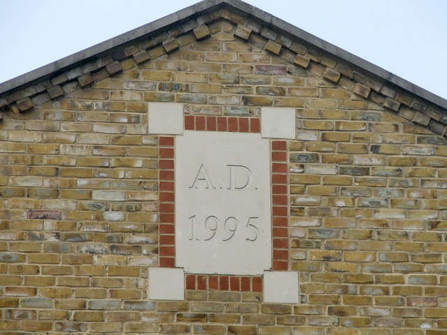 Date Stamp on houses in Harmood Street, London NW1 Date stamp on recently built traditional terraced houses.